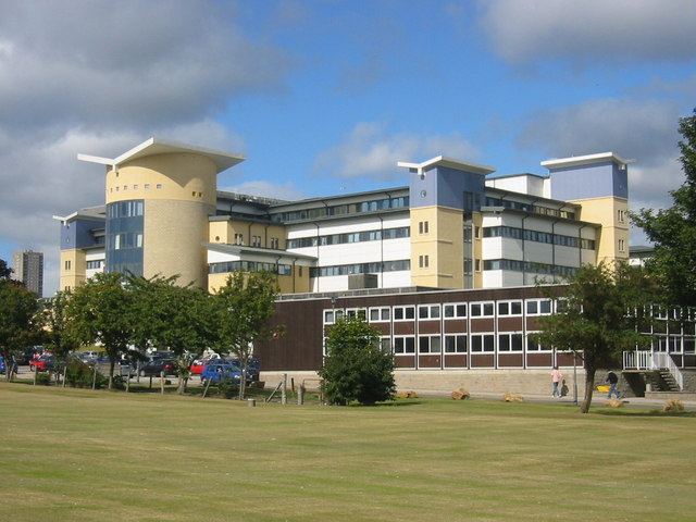 Royal Aberdeen Children's Hospital, Foresterhill, Aberdeen